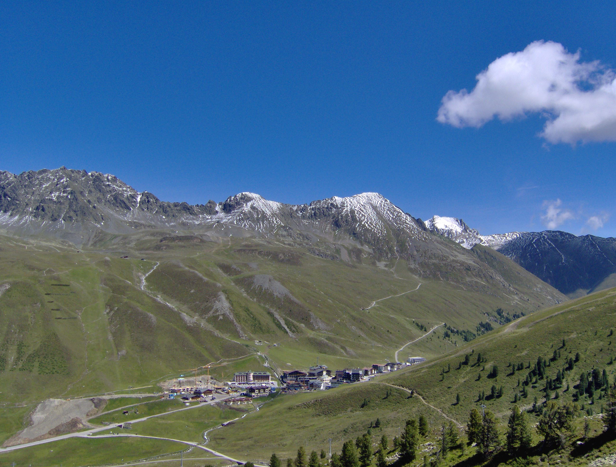 The winter sport resort Kühtai in Tyrol, Austria. The road through the mountain pass Kühtaisattel (2017 m) can be found in the left below corner, running through Kühtai and disappearing behind the mountain on the right below corner.